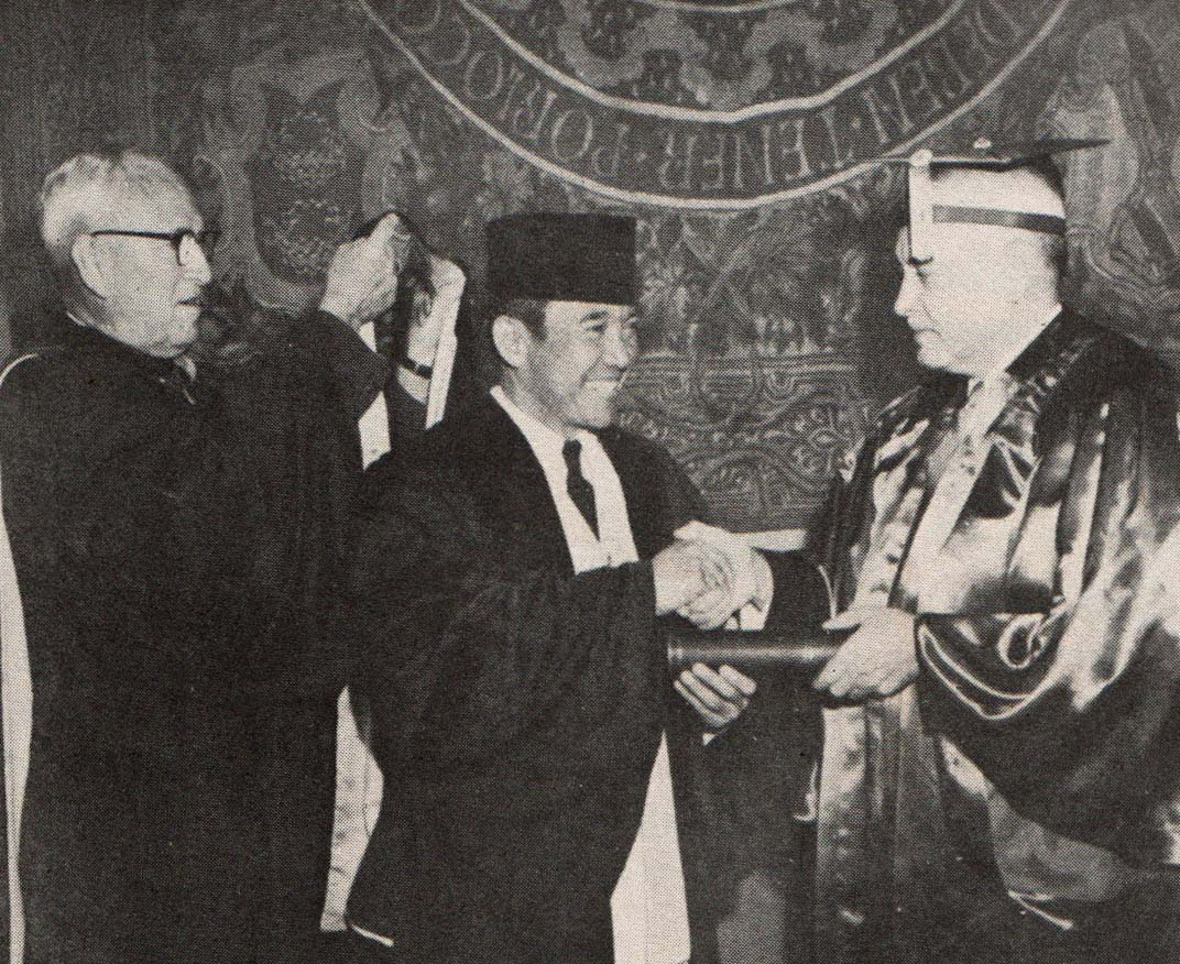 Sukarno receiving Doctoris Honora Causa from Grayson Kirk